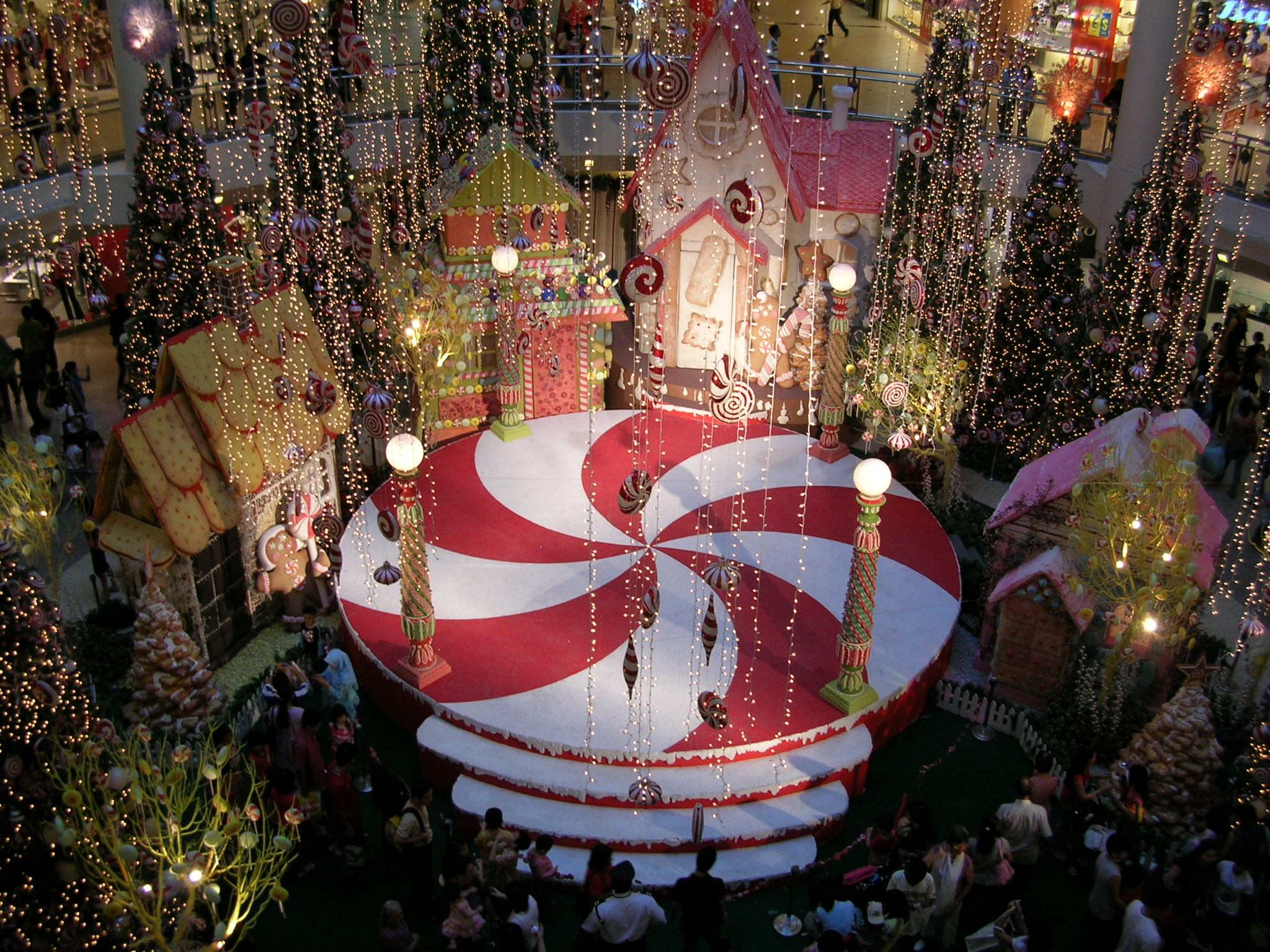 christmas decoration at mid valley 2006